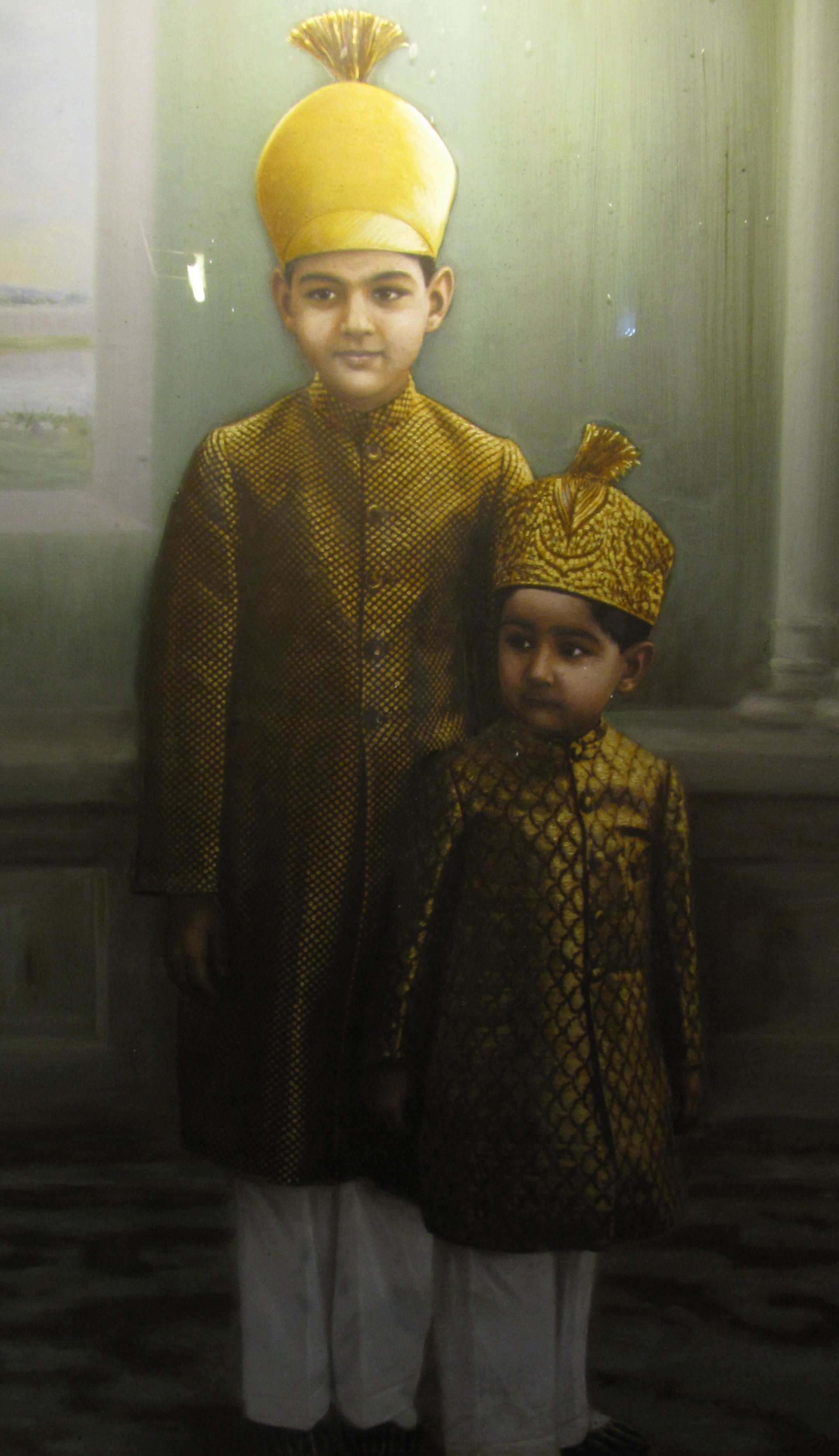 Grand Son's of Mir Osman Ali khan, Mukarram Jah & Muffakham Jah